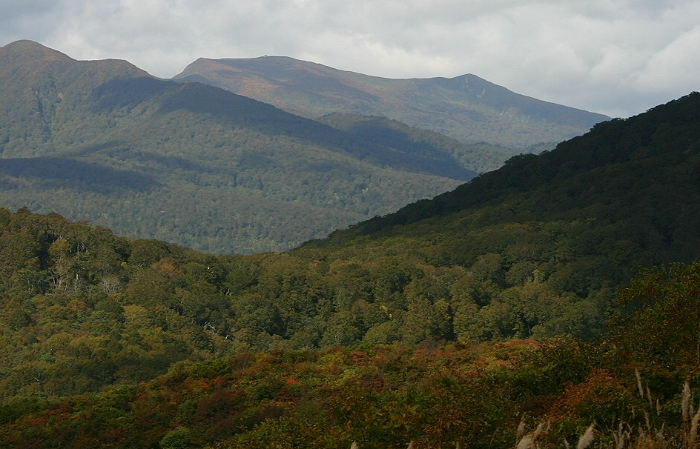 Mount Funagata (Funagatayama) as seen from Mount Izumi